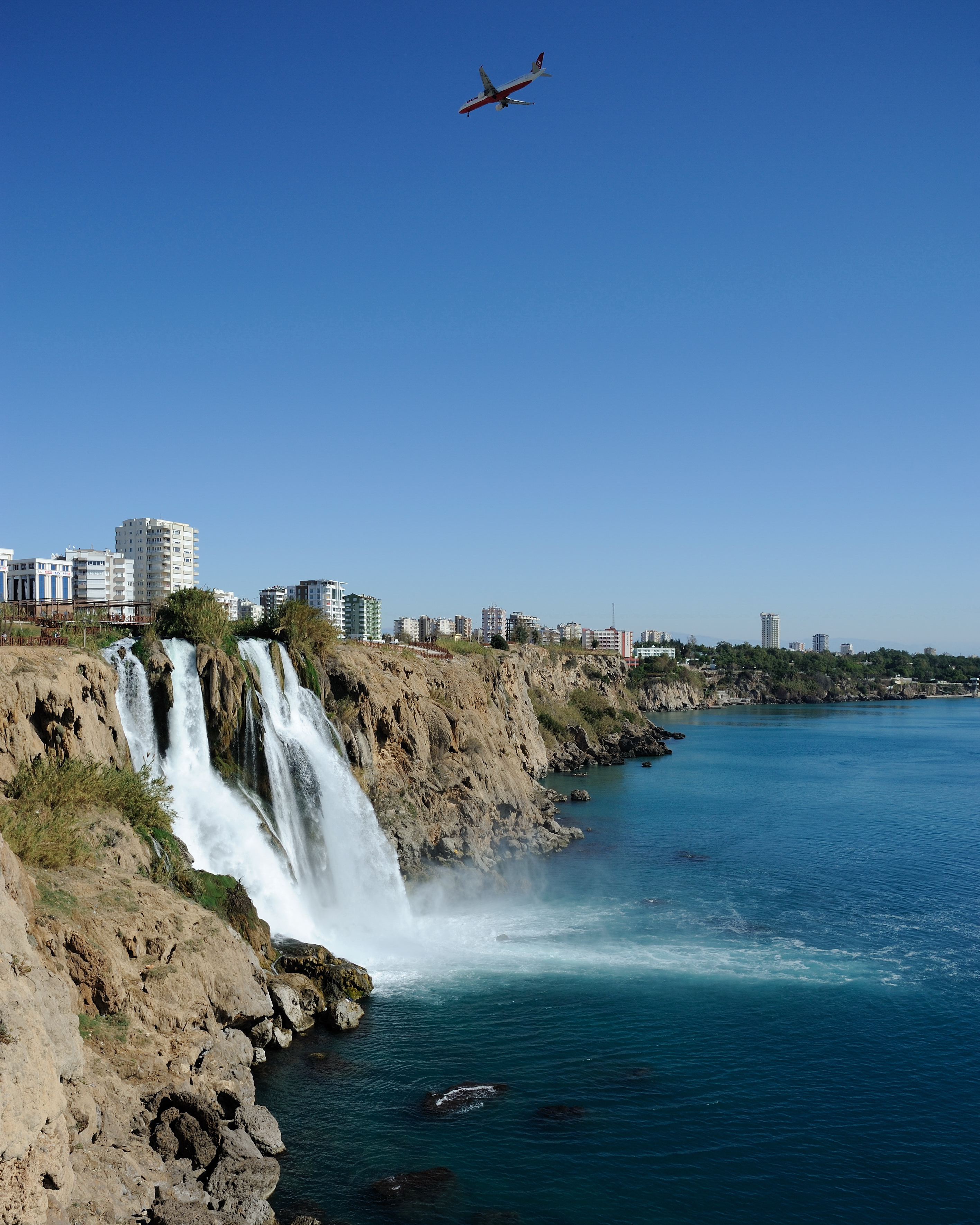 Lower Duden Waterfall, Antalya, Turkey.